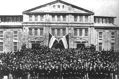 Republic of China Congress 1913